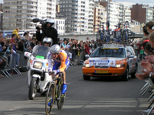 Bram de Groot, Dutch cyclist Eigen foto, GNU/FDL 4 dec 2004 20:44 David Eerdmans 640x478 (294687 bytes) (Eigen foto, GNU/FDL)